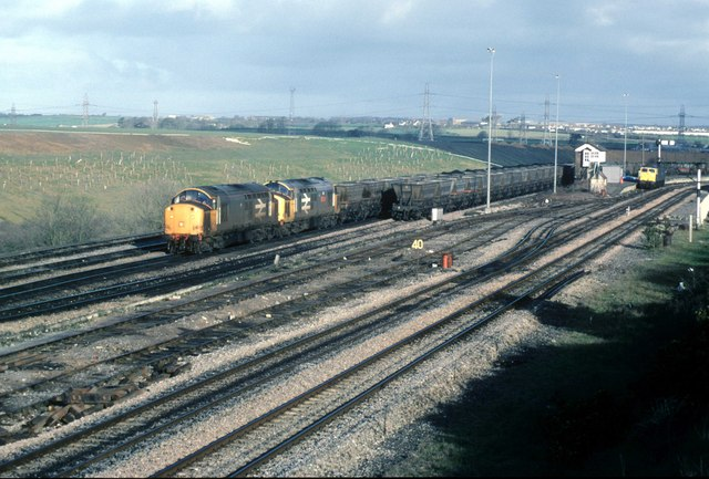 Railway yard at Aberthaw